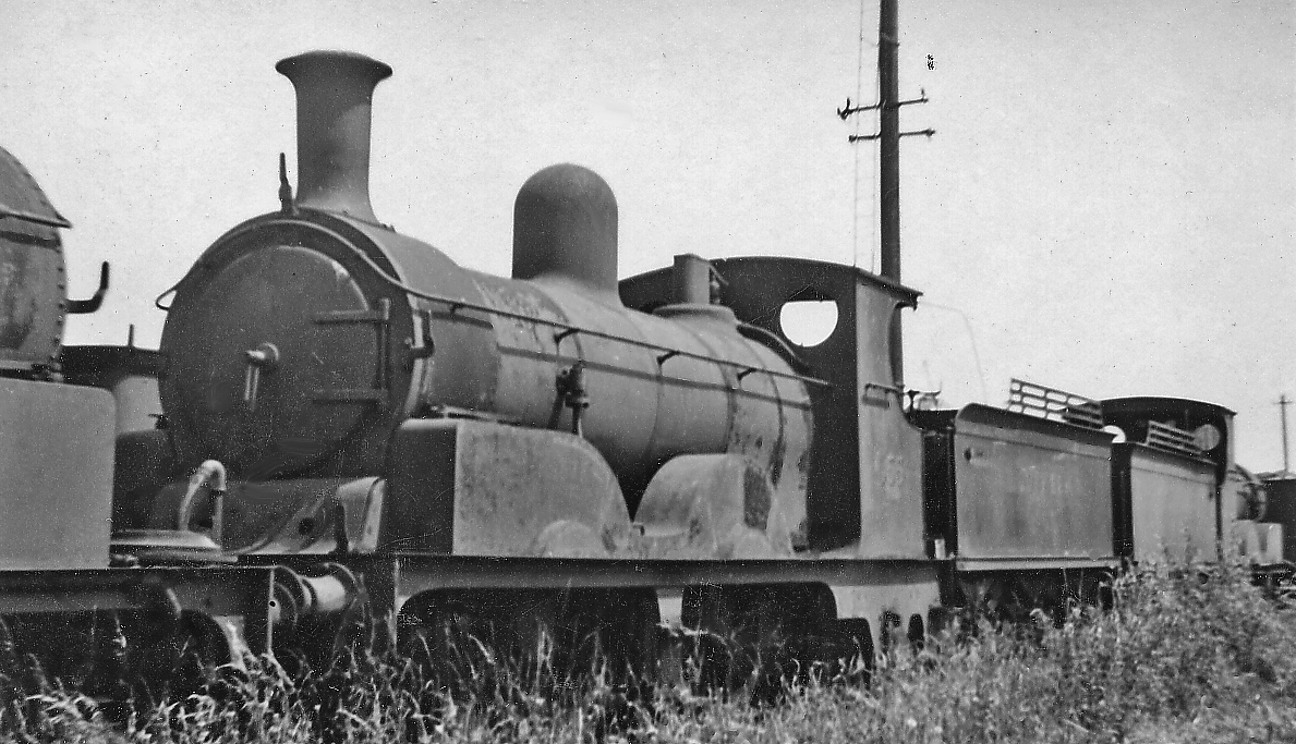 Ex-LSWR Adams 0-4-2 dumped at Eastleigh Locomotive Depot. Along with some 20 other condemned locomotives, Adams A12 class No. 555 (built 12/1889, withdrawn 3/43) has been dumped at the far end of the Locomotive Yard for months/years, rusting away surrounded by weeds. (See also SU4517 : Ancient ex-LSWR 4-4-0 dumped at Eastleigh Locomotive Depot).